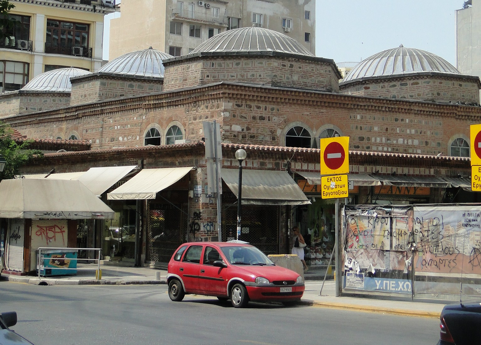 Ottoman-era Bezesteni Market, Thessaloniki.